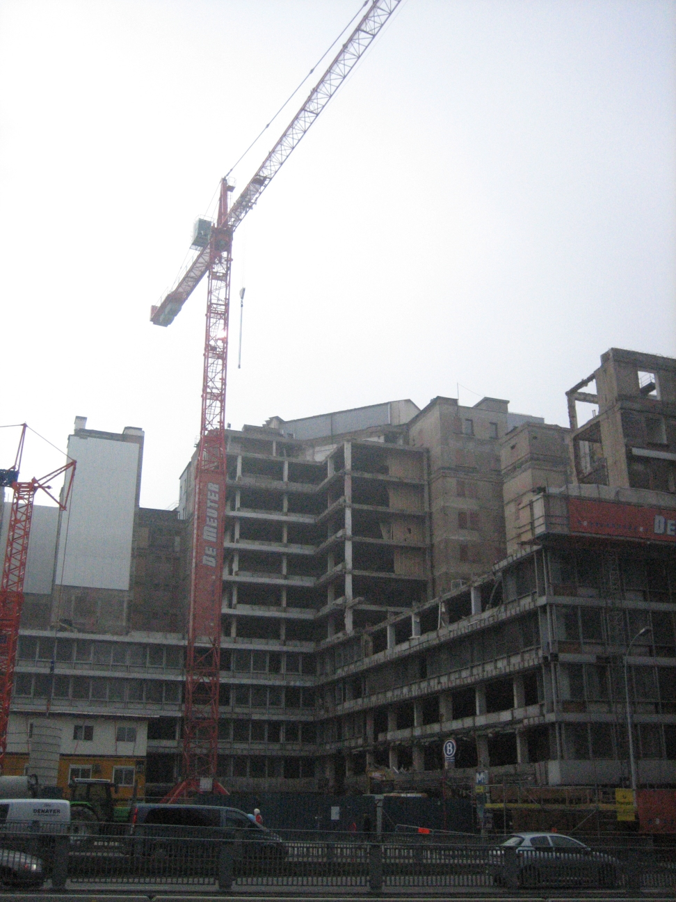 'Résidence Palace' under rebuilding for use by the European Council , Rue de la Loi - Brussels